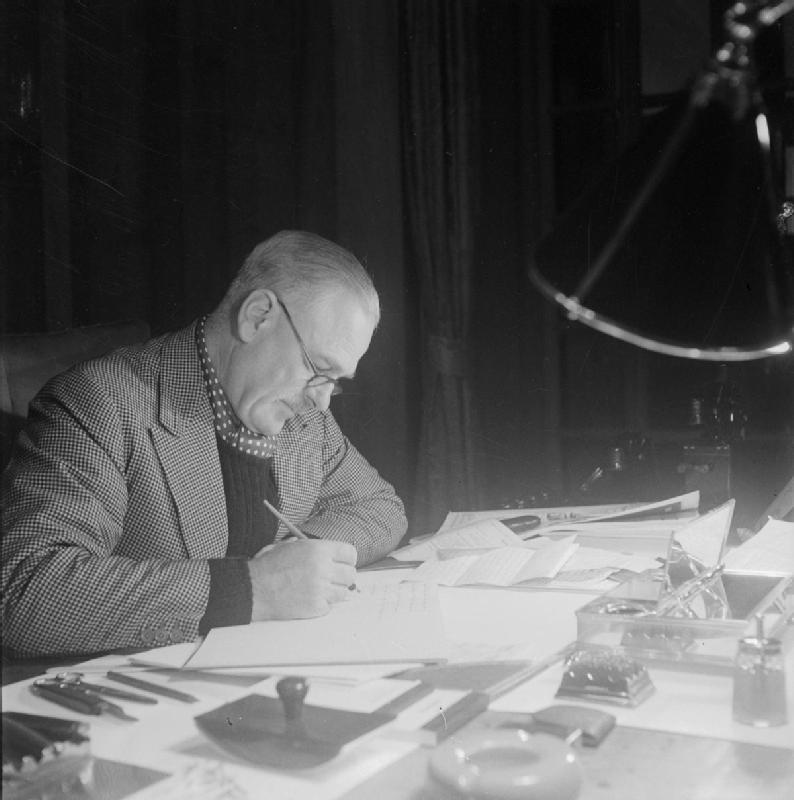 British Generals 1939-1945 Field Marshal Earl Wavell of Cyrenaica and Winchester (1883 - 1950): Wavell, Viceroy of India at his desk in Delhi.